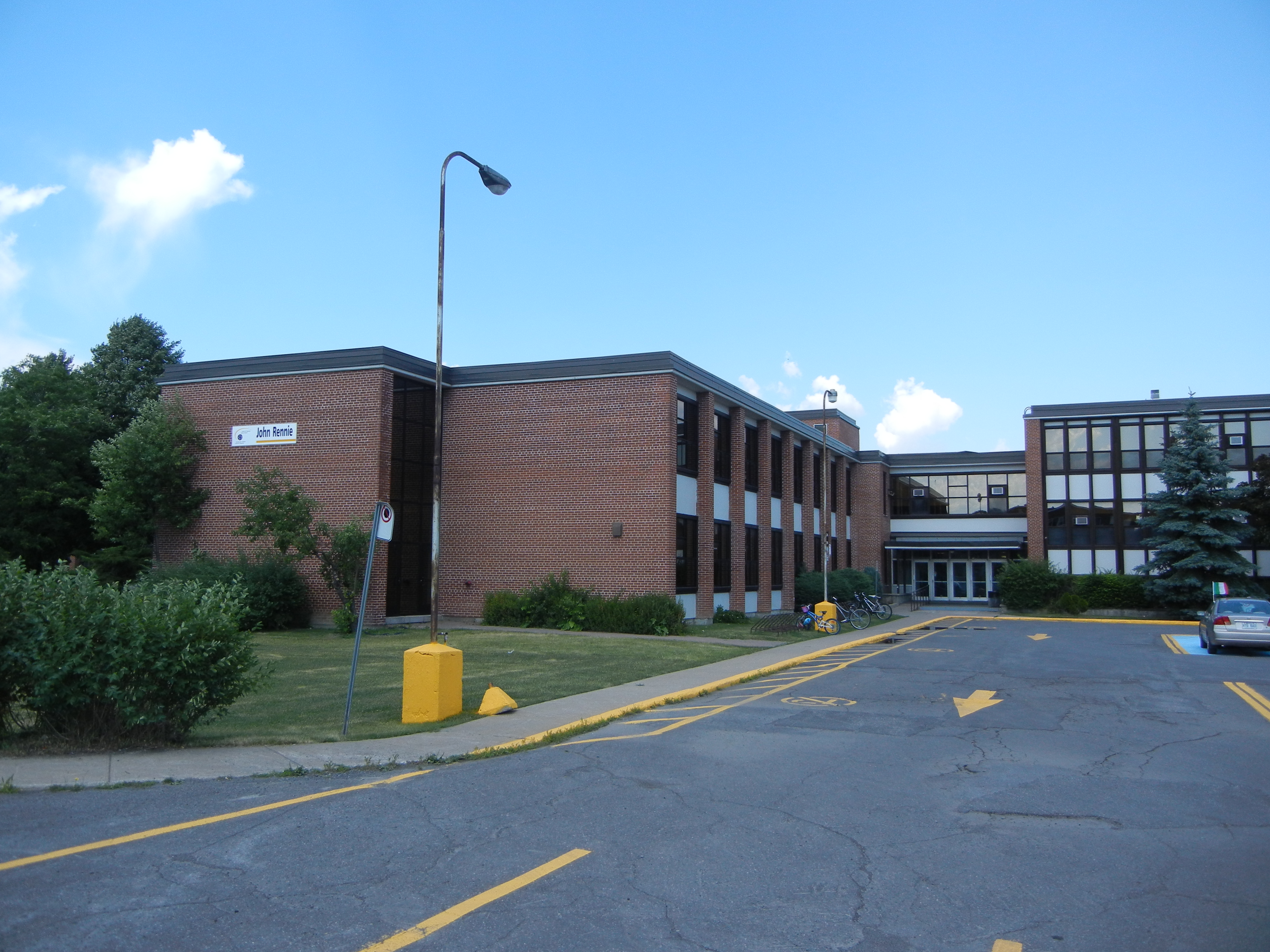 A photo of John Rennie High School in Pointe-Claire, Quebec, Canada facing Boulevard Saint-Jean.